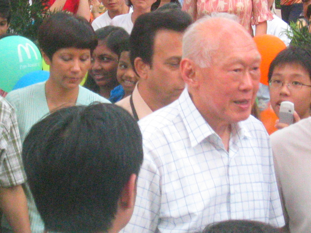 Lee Kuan Yew (Mandarin: 李光耀, Pinyin: Lǐ Guāngyào; born 16 September 1923), the first Prime Minister of Singapore (1959–1990). The woman behind him looking downwards is Member of Parliament Indranee Thurai Rajah.